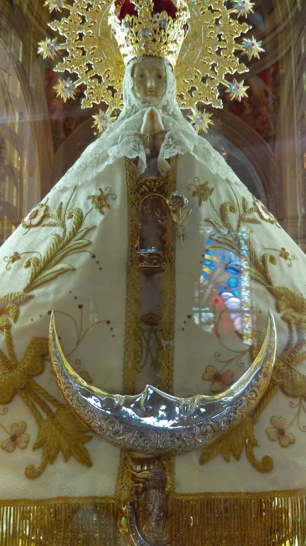 A photograph of the statue of Our Lady of Lledó, in Castellón de la Plana